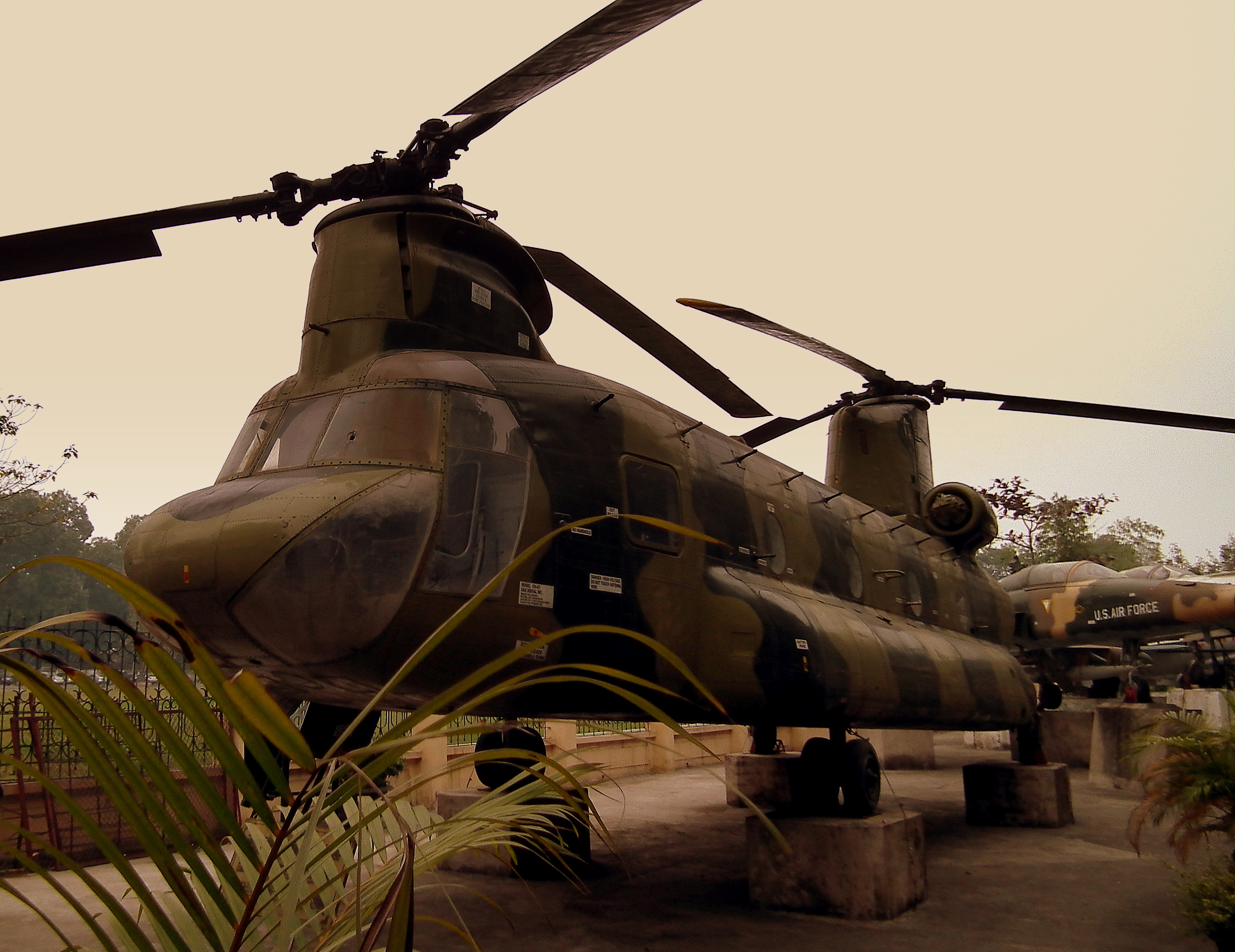 CHINOOK AT THE ARMY MUSEUM HA NOI VIETNAM FEB 2012